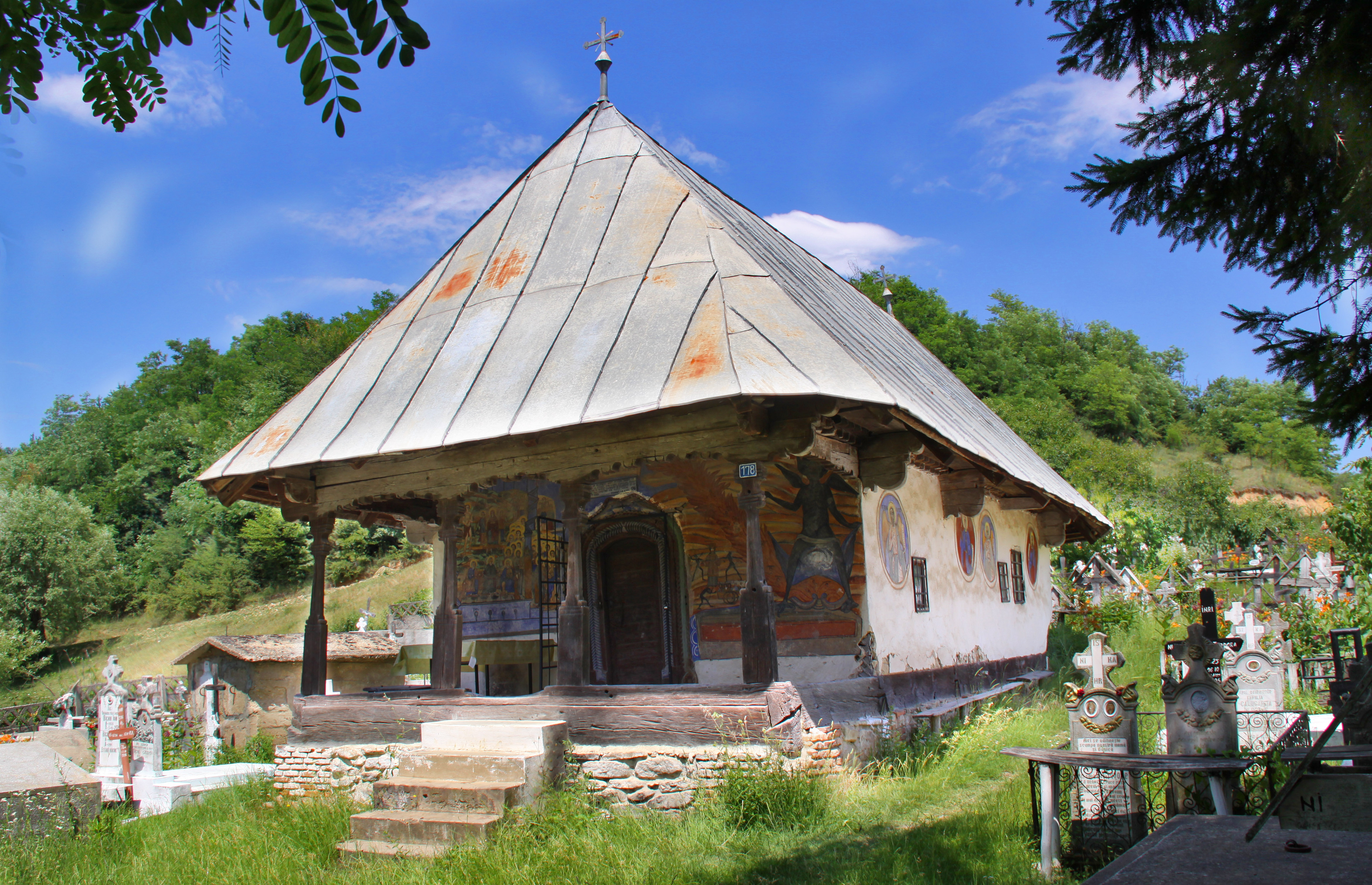 Floreşteni, Târgu Cărbuneşti, Gorj county: the wooden church, South-West.